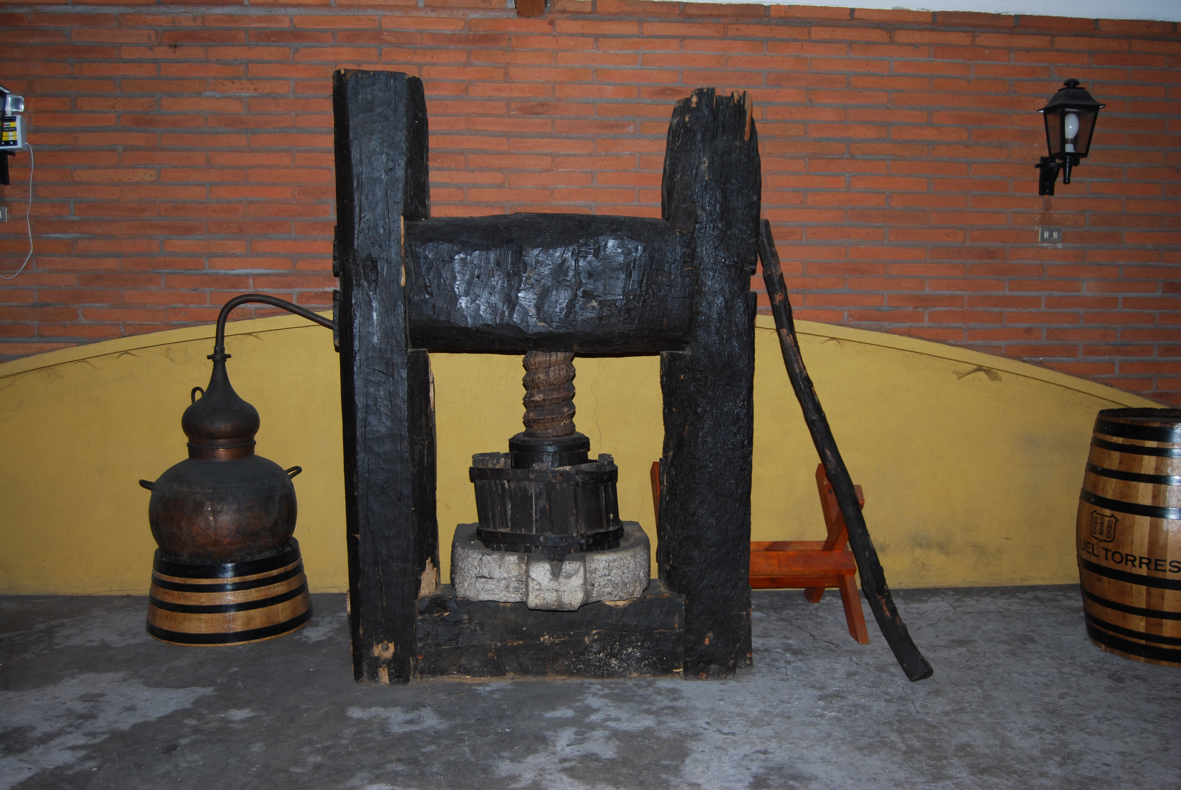 Example of an old wine press in Chile